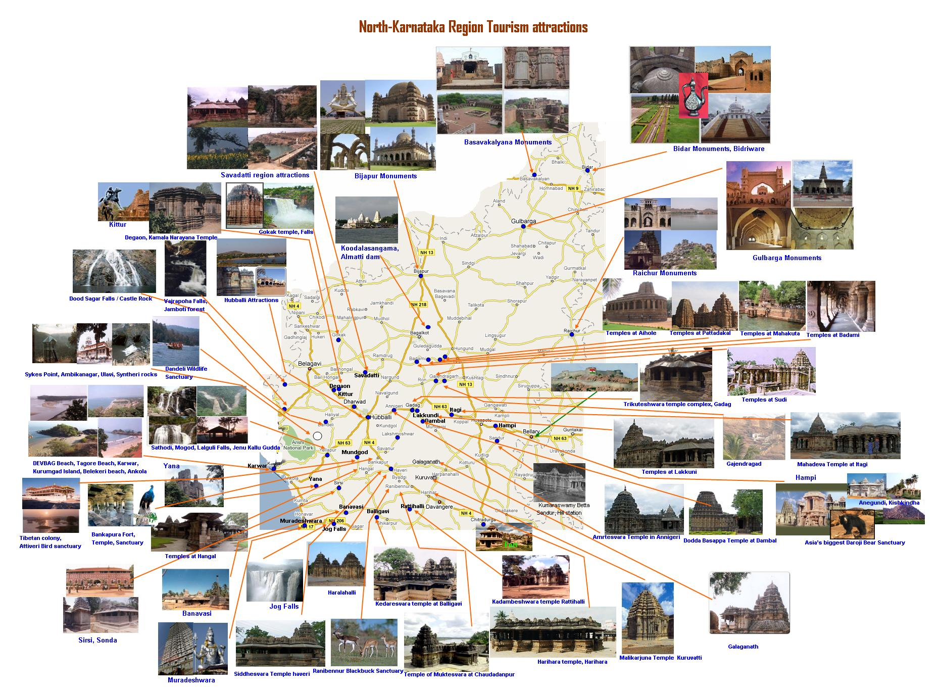 North-Karnataka Region Tourism map, updated Author and Source : Manjuanth_Doddamani, Gajendragad / Hubli, Karnataka(North), India